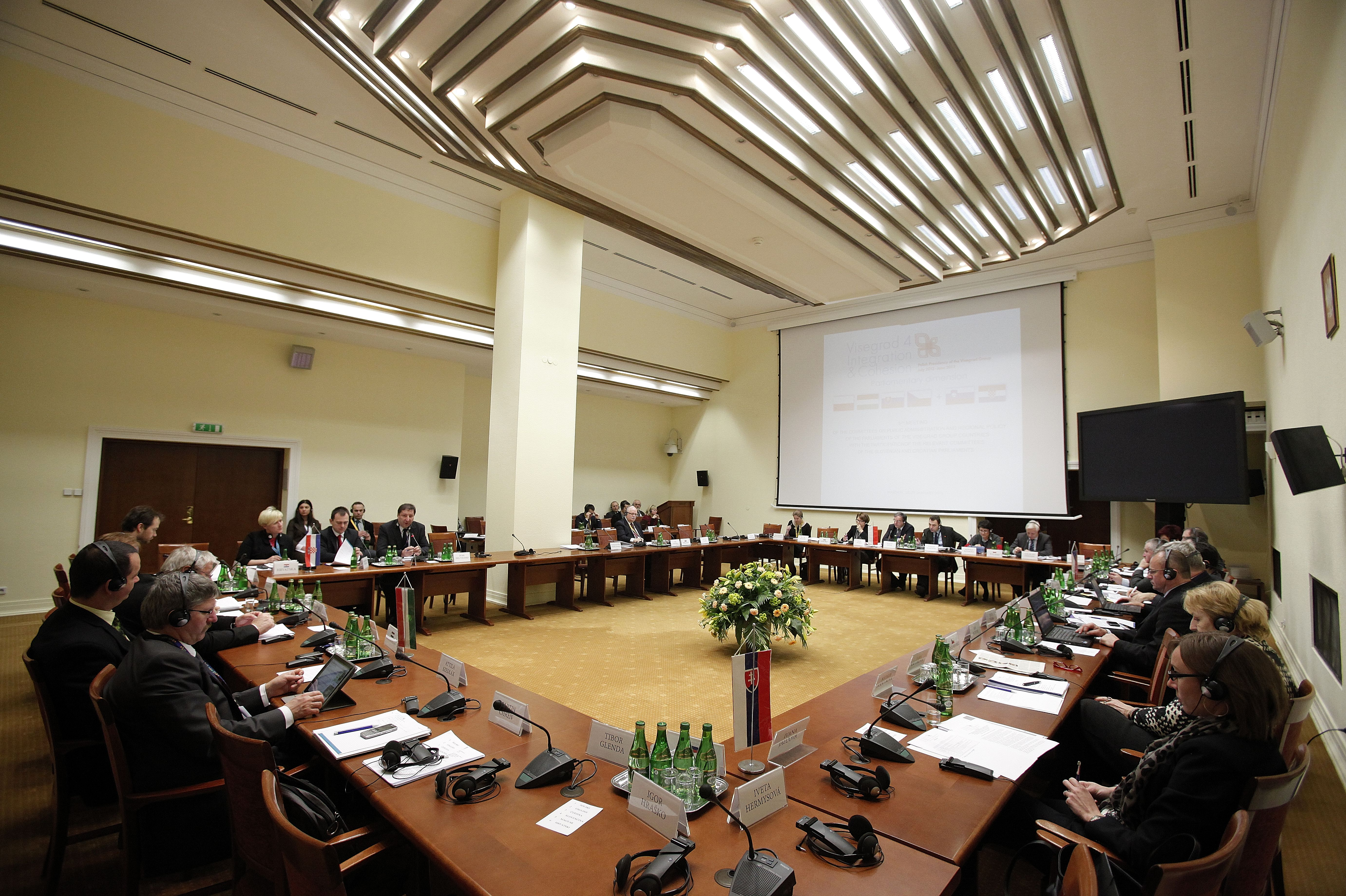 5th meeting of the committees on public administration and regional policy of the parliaments of the Visegrad Group countries (New Deputies' House, Sejm of the Republic of Poland)